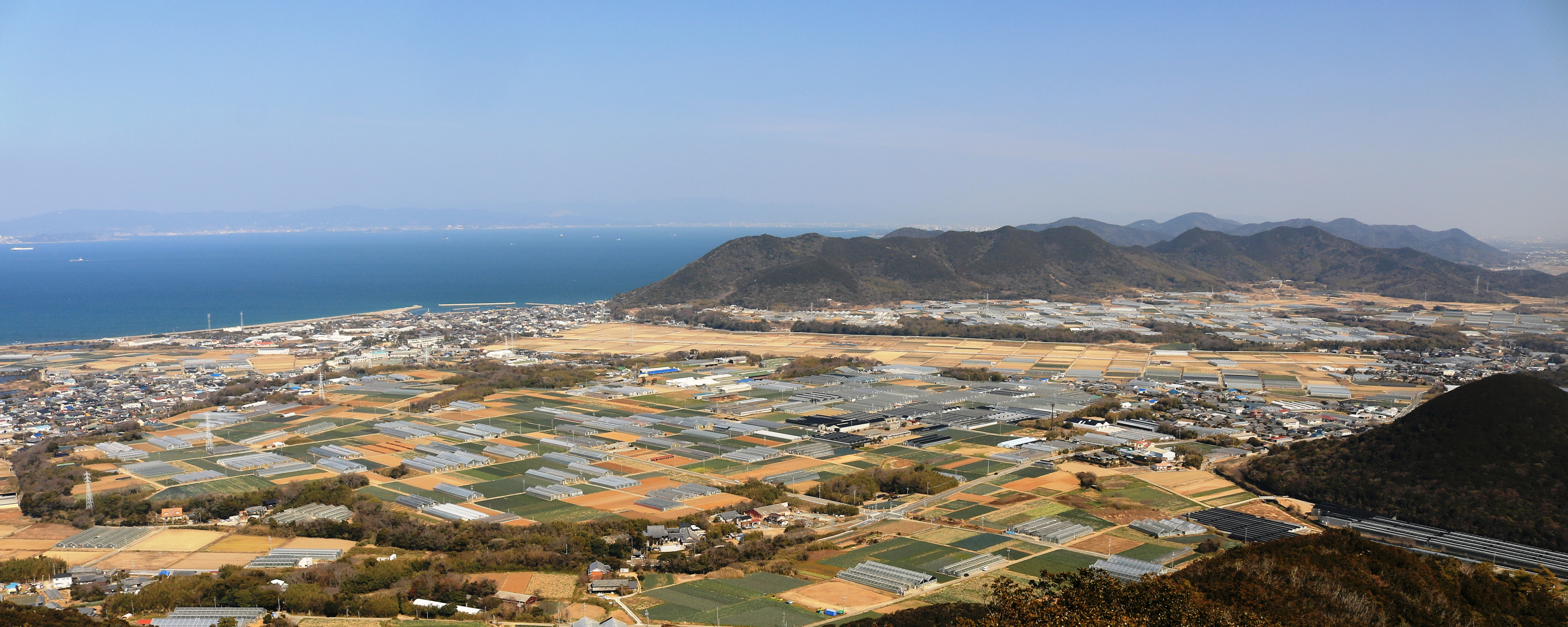 Ehimacho and Mount Nanatsu seen from Mount Amagoi in Tahara, Aichi Prefecture, Japan.